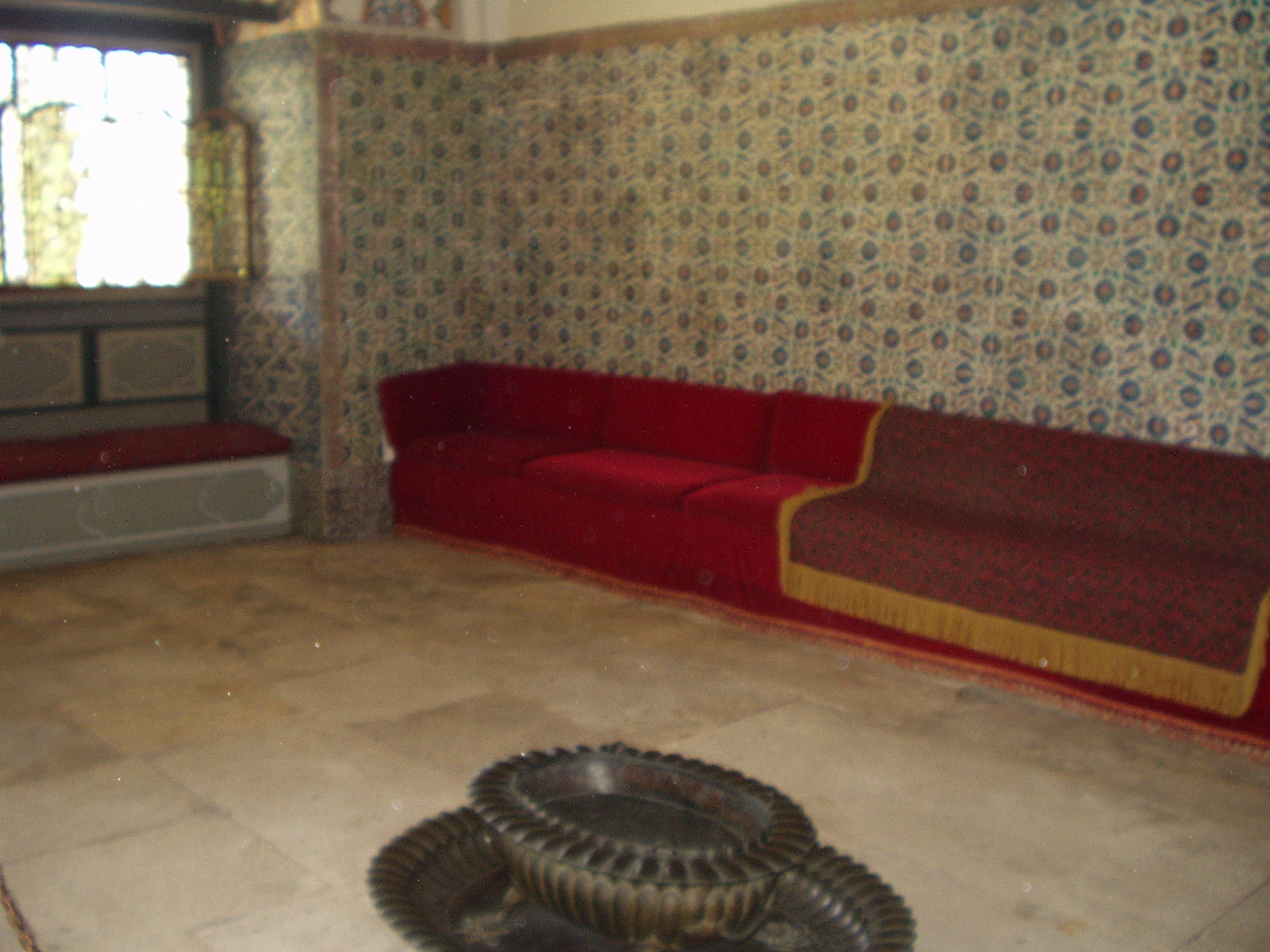 Imperial Council Hall in the Topkapı Sarayı, Istanbul: inside sofa.